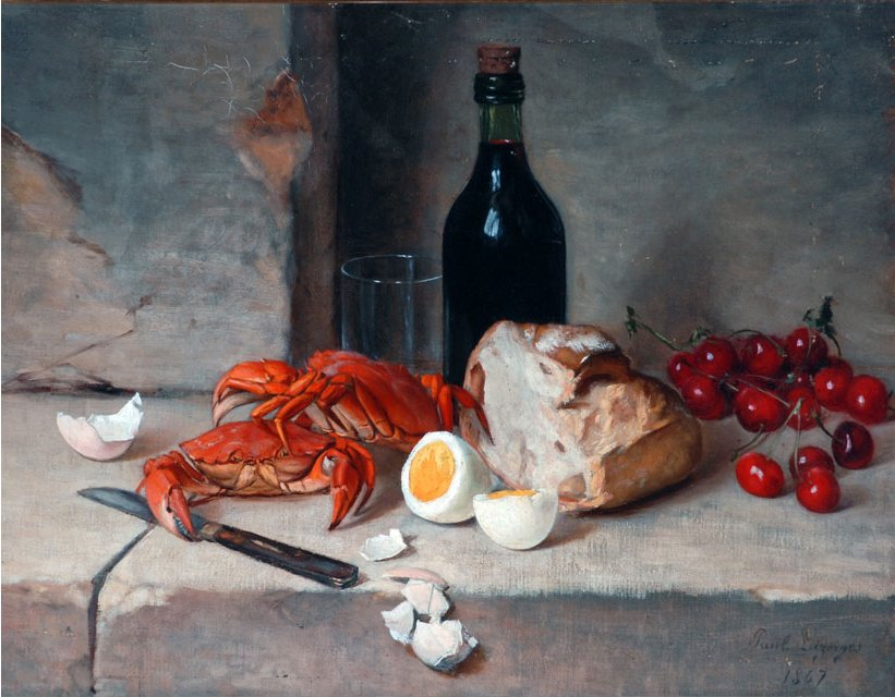 Still Life with Crabs and a Bottle by Paul Jean Baptiste Lazerges, Bowes Museum